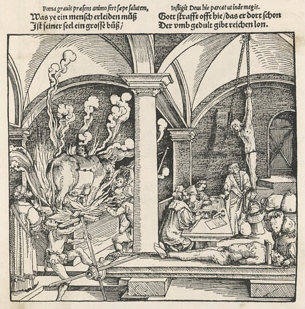 A drawing of a Brazen bull by Hans Burgkmair.